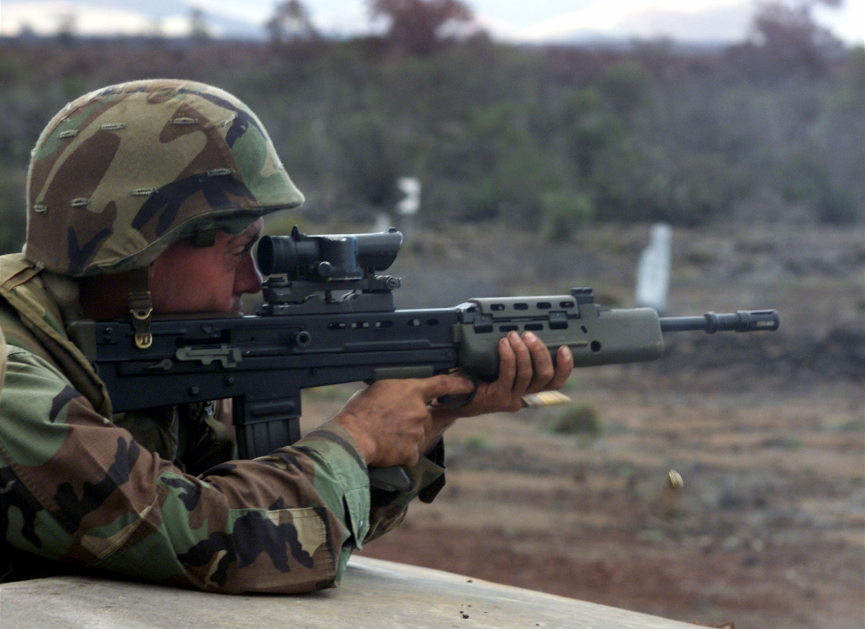 Description Marine with British L85 Endeavour assault rifle Date 6 Oct 2000 Source ID DMSD0203075 001006M2427M134 Original caption US Marine Corps Lance Corporal Jamison from the 1st Battalion, 3rd Marines, Weapons Company, fires a British Royal Marines' SA-80 RIFLE during a training exercise at Pohakuloa Training Area on the Big Island of Hawai. Location: POHAKULOA TRAINING AREA, HAWAII (HI) UNITED STATES OF AMERICA (USA Photographer LCPL SIMON MARTIN, USMC